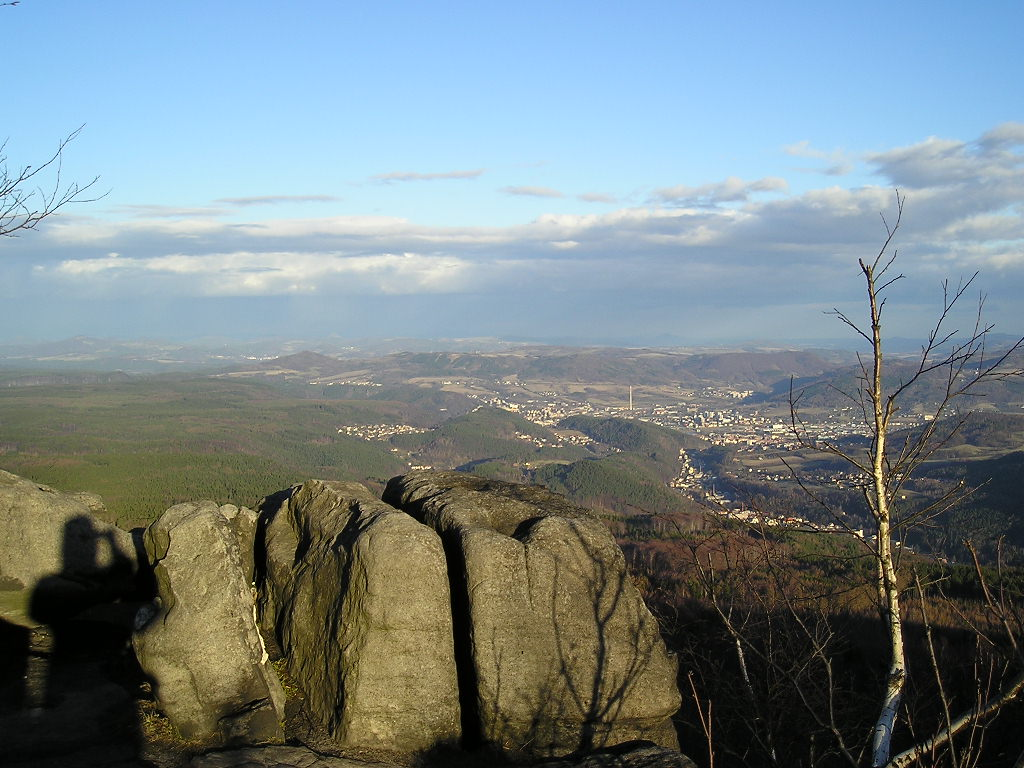 A view of Děčín, Czech Republic.